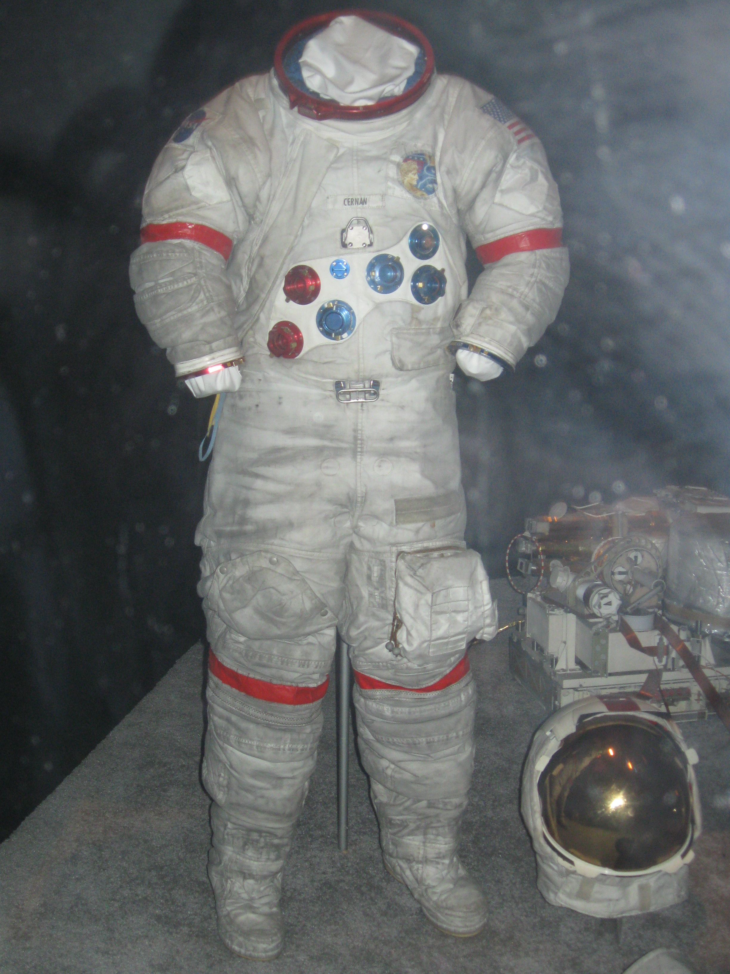 A photograph showing Gene Cernan's Apollo 17 lunar spacesuit on display at the Apollo to the Moon exhibition at the National Air and Space Museum in Washington, D.C.